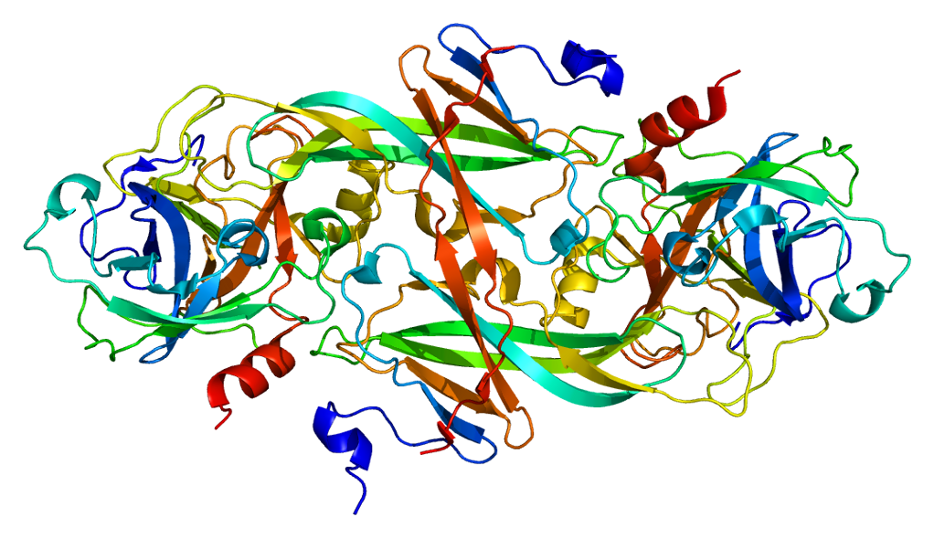 Structure of the F11 protein. Based on PyMOL rendering of PDB 1xx9.